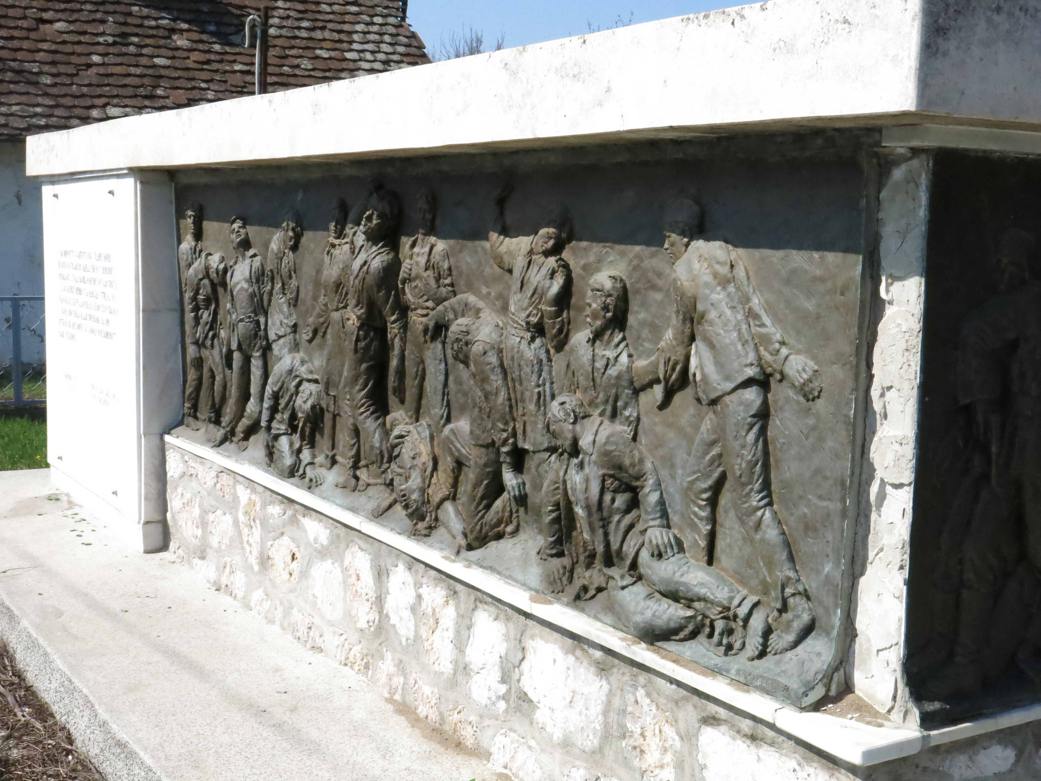 Skela, Monument to the executed hostages